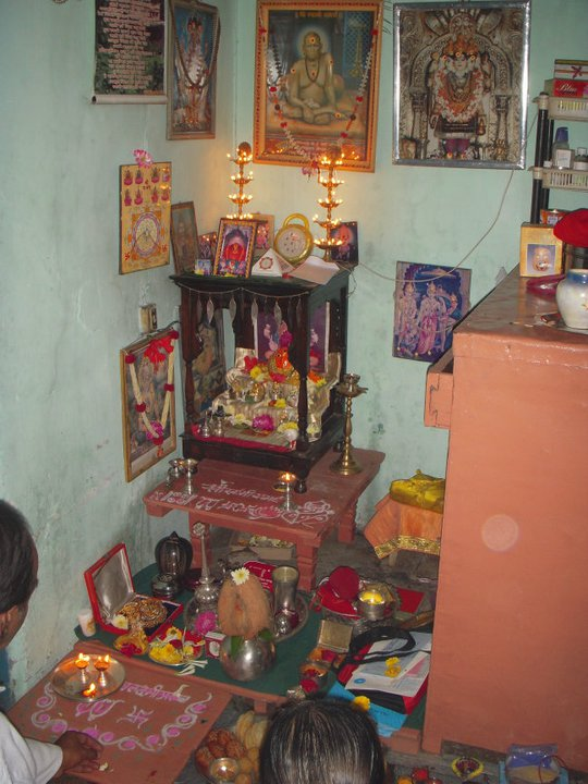 A deoghar or family shrine from a typical Deshastha brahmin household in Maharashtra , India